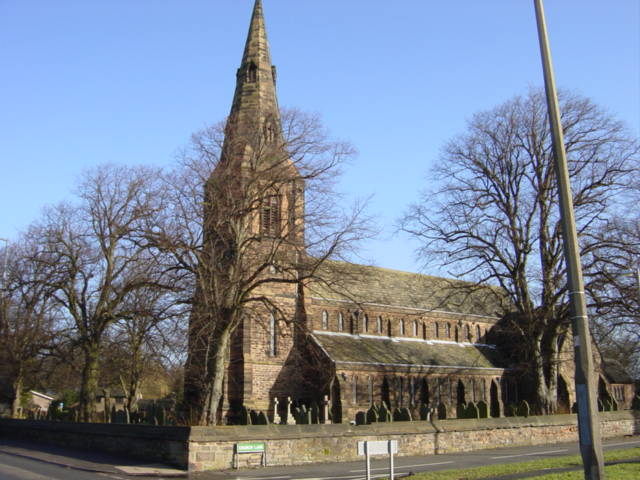 St Mary's parish church, Knowsley Village, Merseyside, seen from the southwest